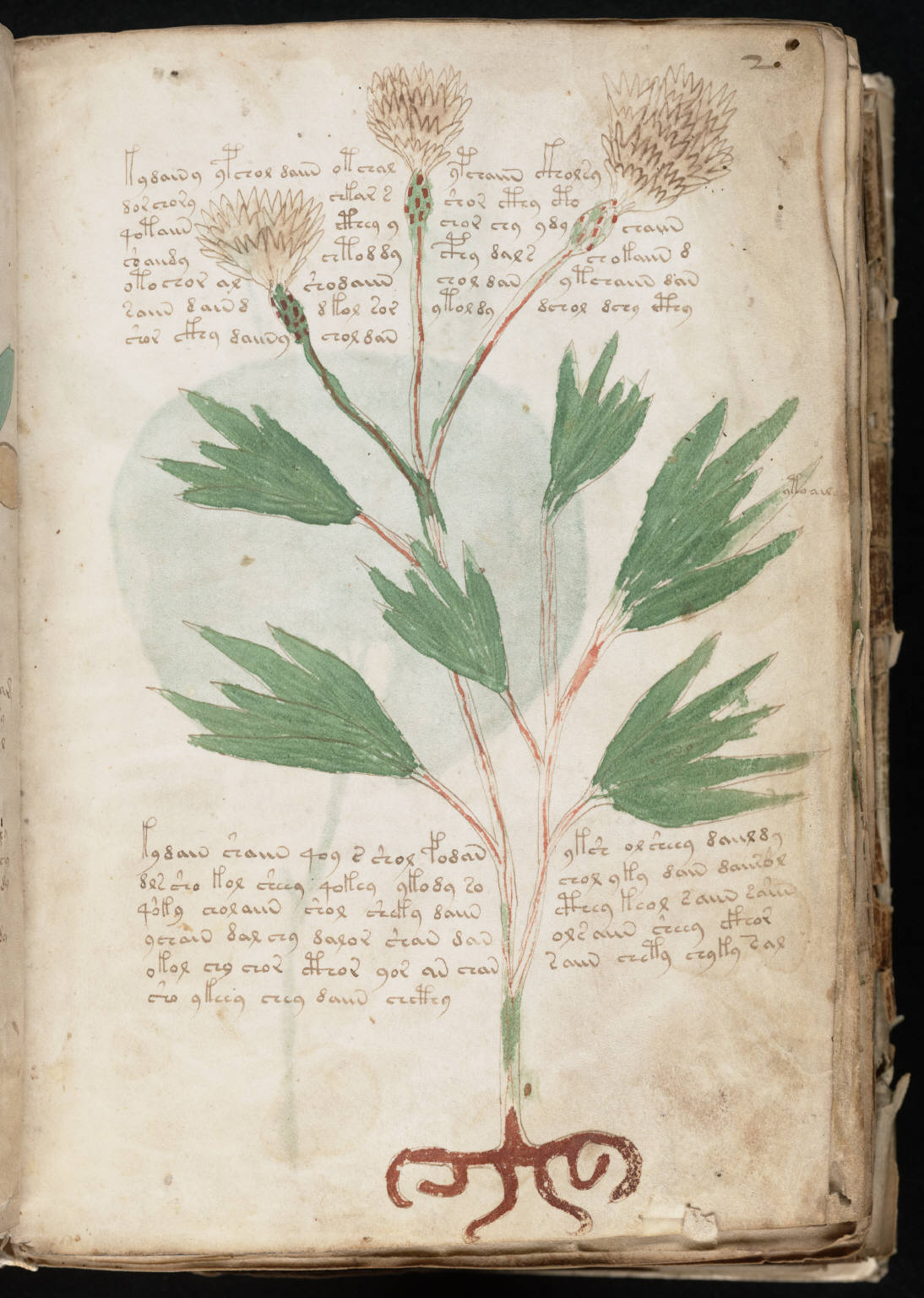 A page from the mysterious Voynich manuscript, which is undeciphered to this day.